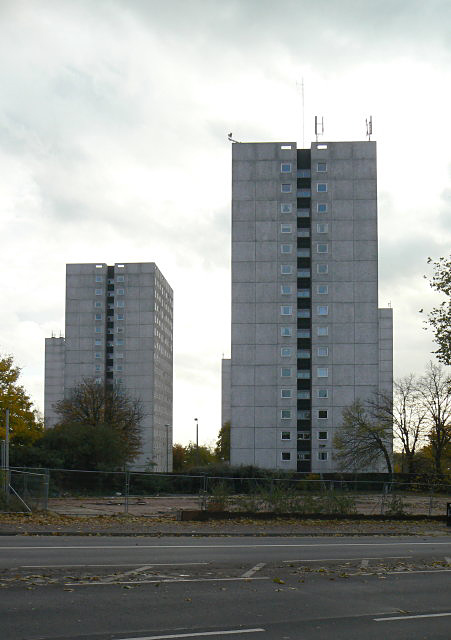 Vanished filling station Three months or so before this view was taken, there was a filling station on this site; gone without trace, not even a car wash. The flats behind are one of the few high-rise estates in Nottingham.